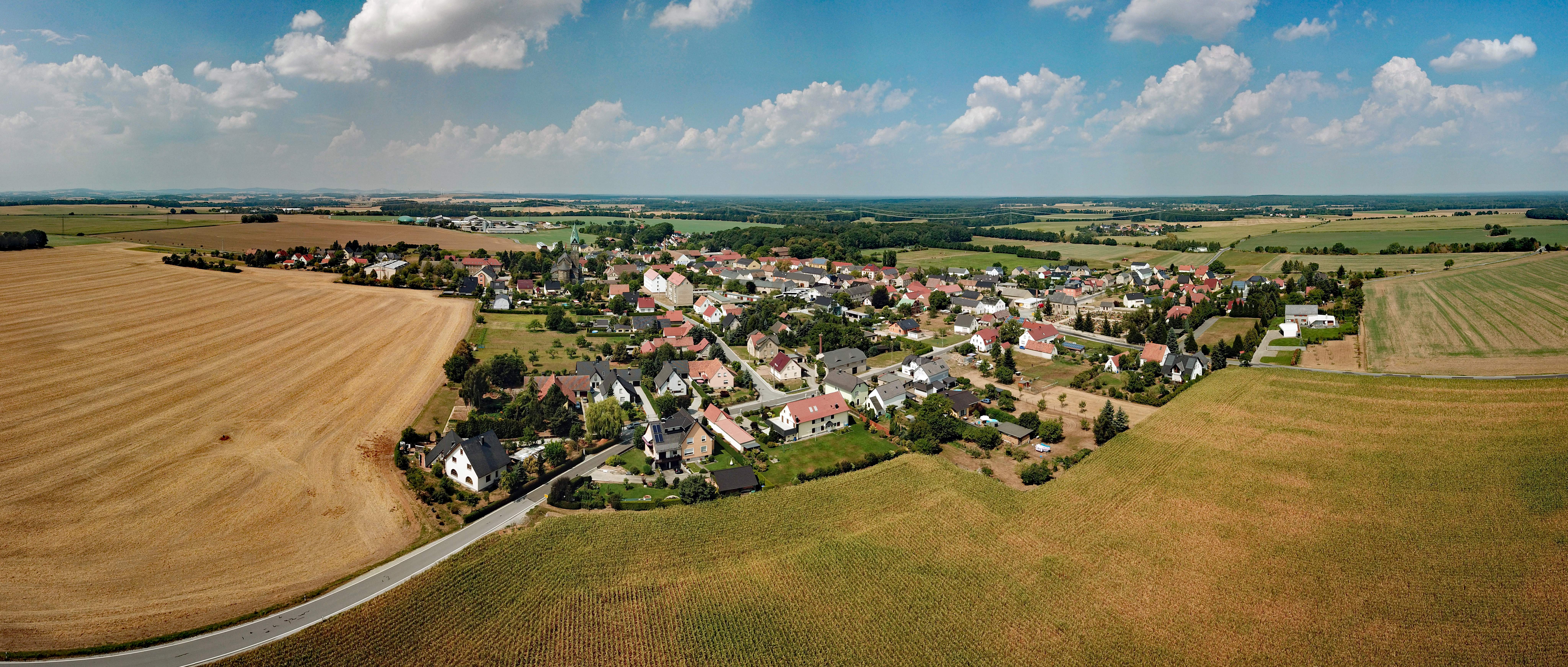 Radibor (Saxony, Germany) Hornjoserbsce: Powětrowy wobraz Radworja